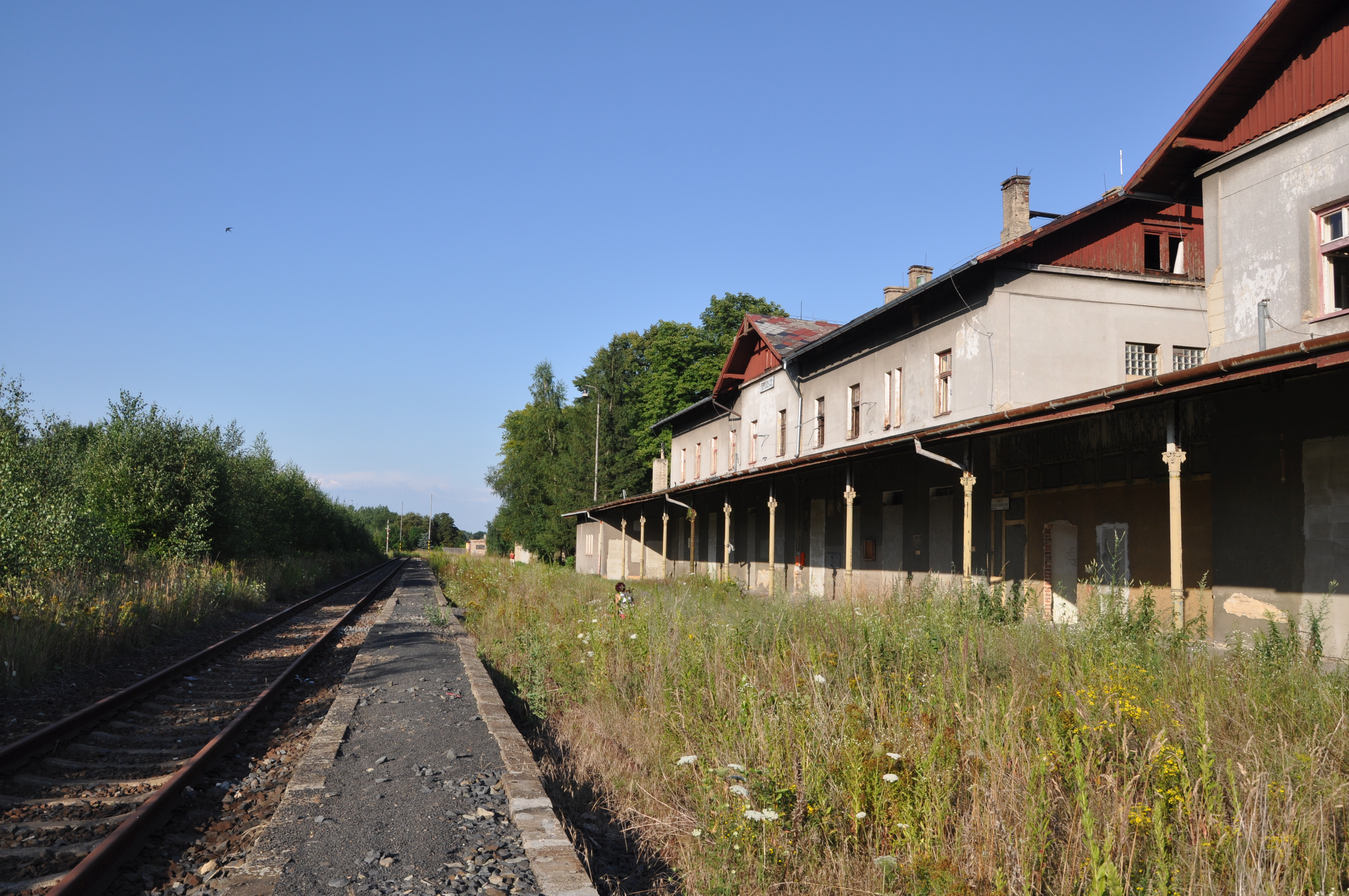 Teplice lesní brána railway station